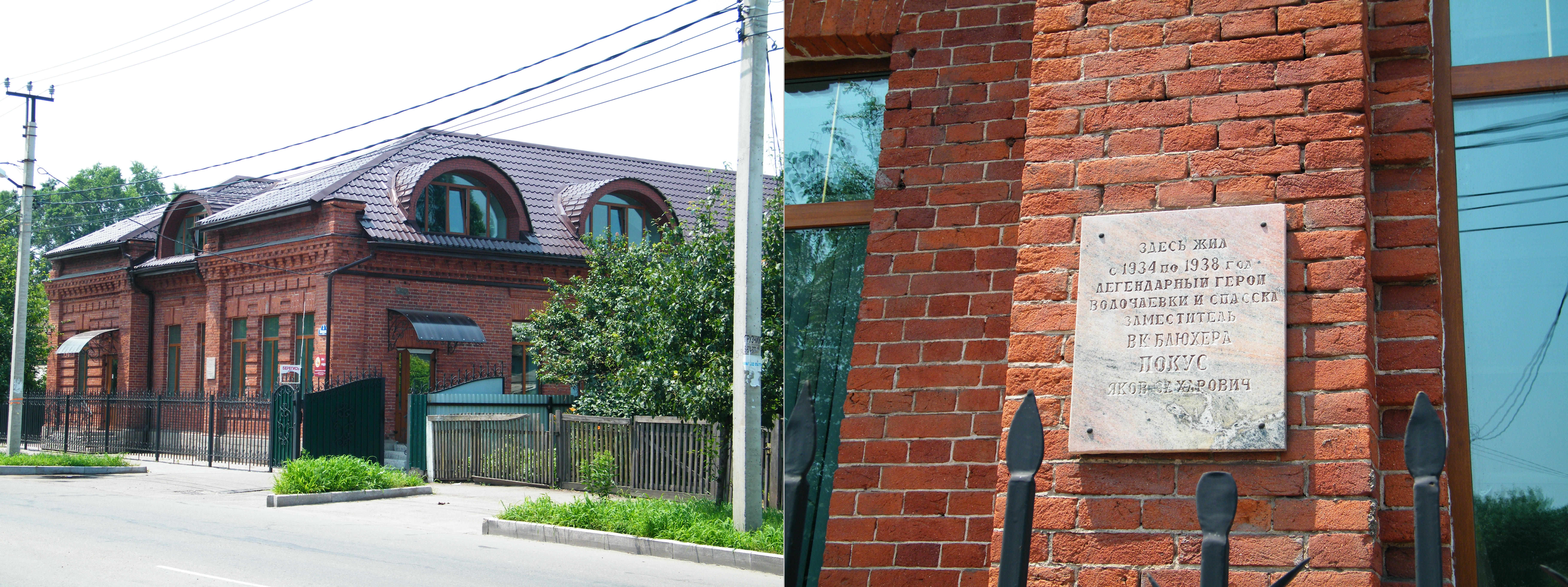 Дом командарма Покуса в Уссурийске